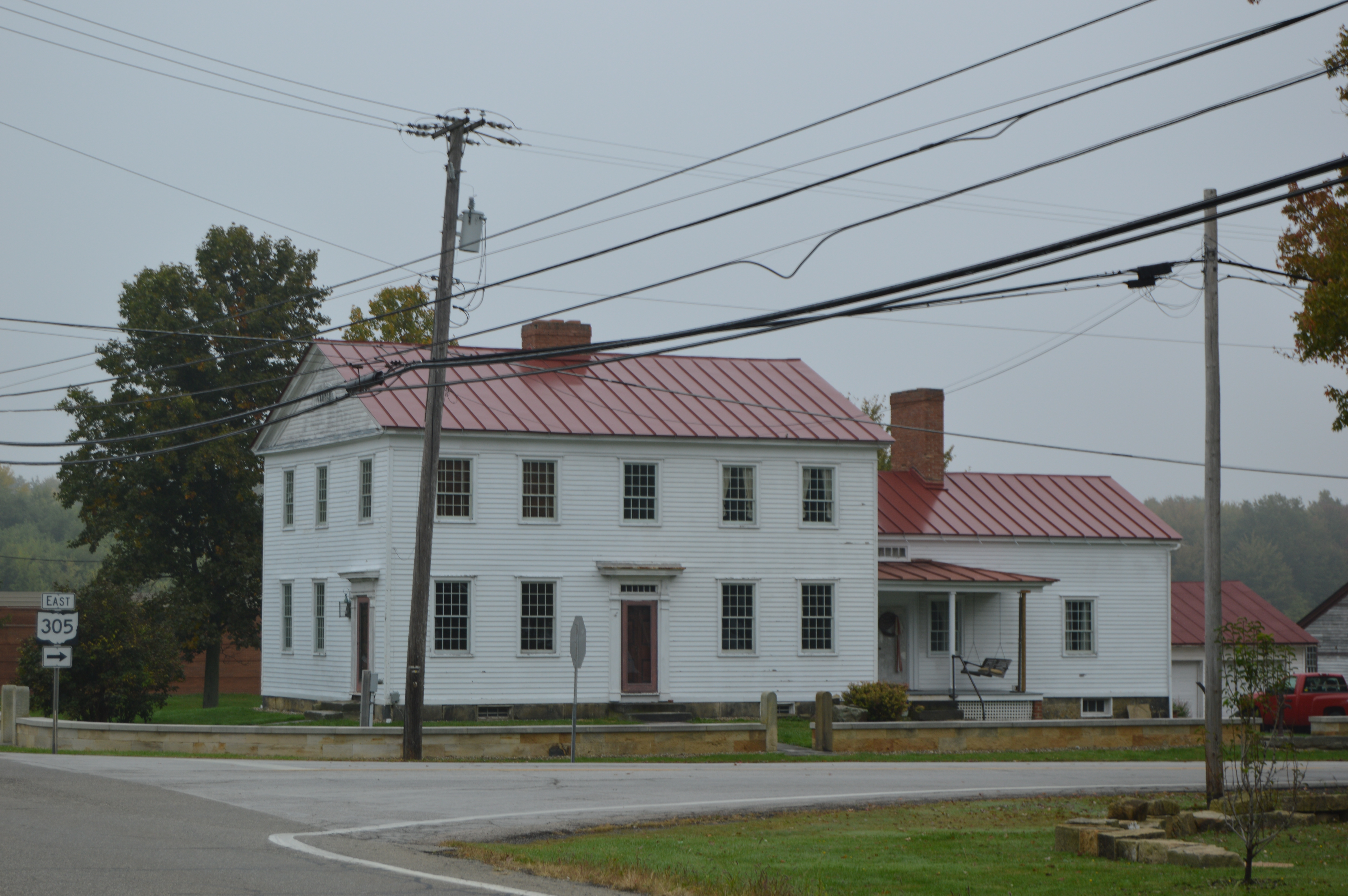 Front and western side of the Elam Jones Public House, located at 3365 State Route 7, at its intersection with State Route 305, in Hartford Center, Ohio, United States. Built in 1828, it is listed on the National Register of Historic Places.